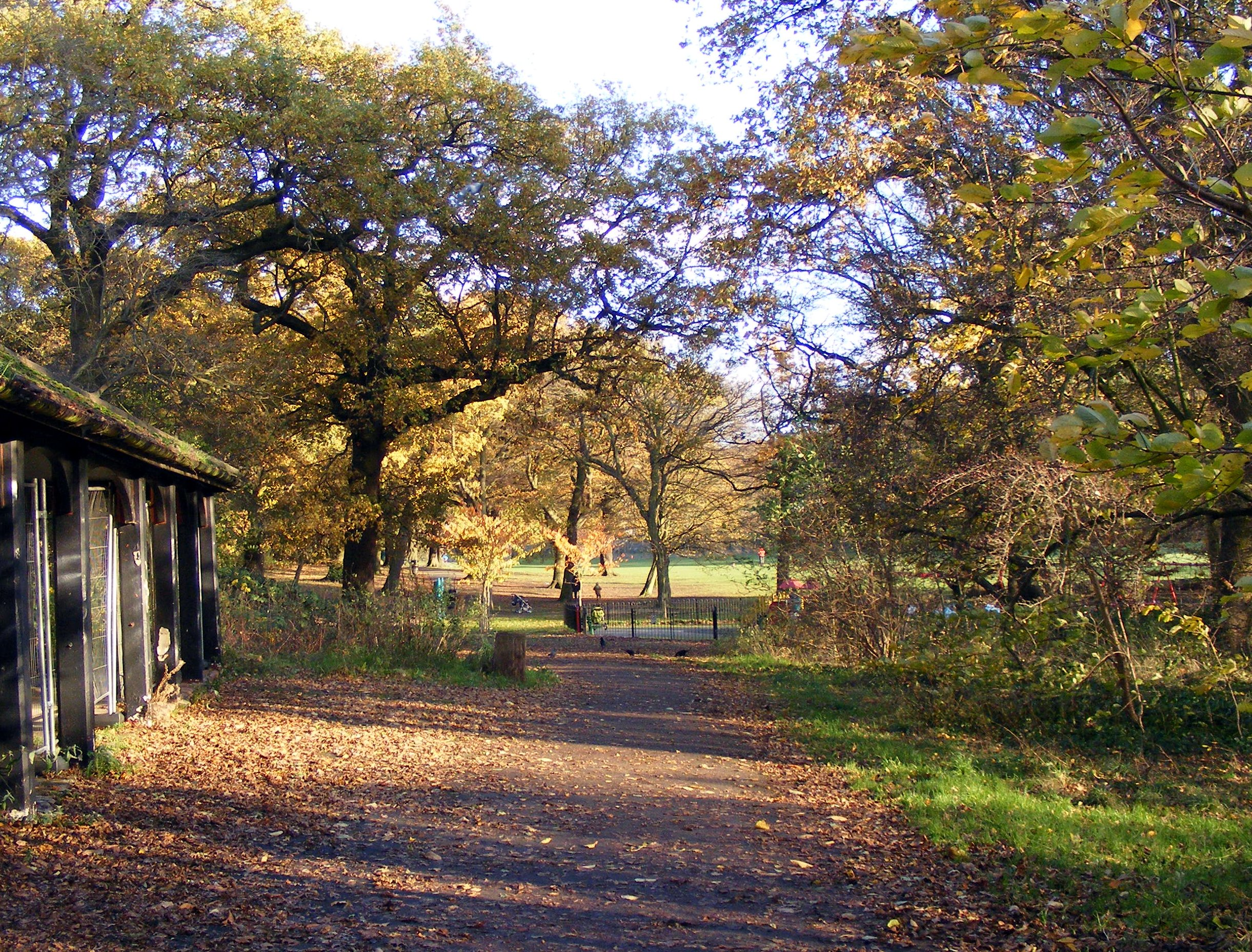 Cherry Tree Wood, East Finchley, Barnet, England, autumn 2009.